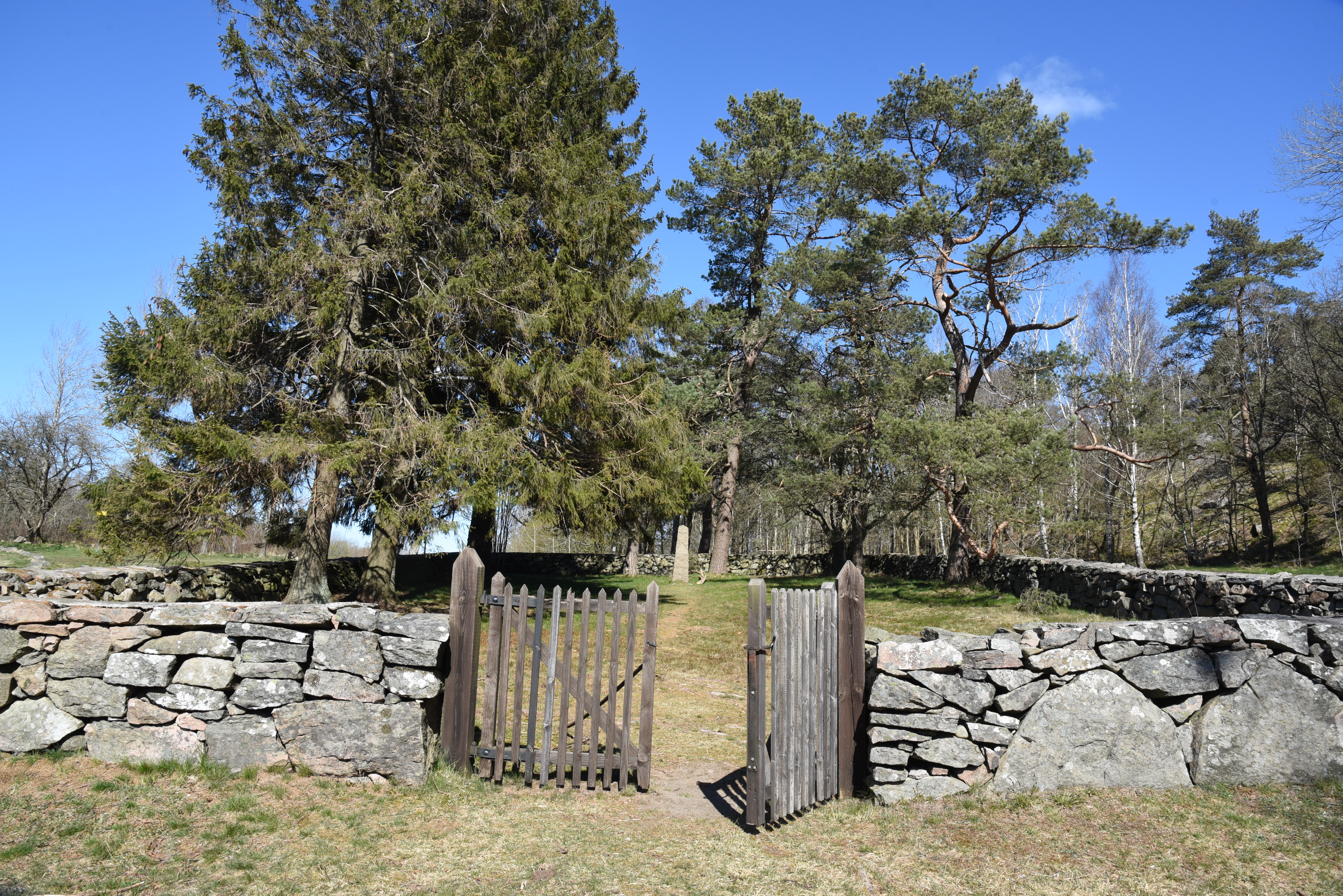 The cholera graveyard in Kallebäck in Gothenburg, established in 1866.